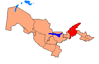 Locator map of Toshkent Province — in eastern Uzbekistan, Central Asia.